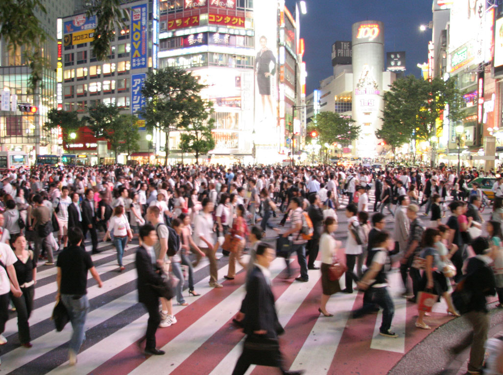 Shibuya shopping district at night. Photo taken in Tokyo 2006 by myself (Bantosh).